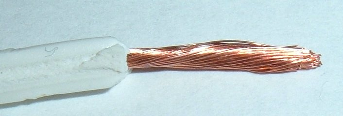 Stranded lamp wire, 16 gauge copper